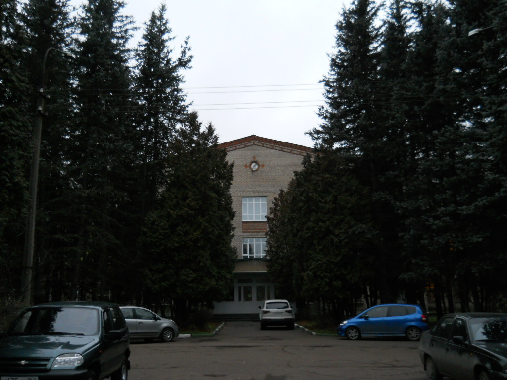 Pushkino (Moscow region, Russia), VNIILM, main entrance.